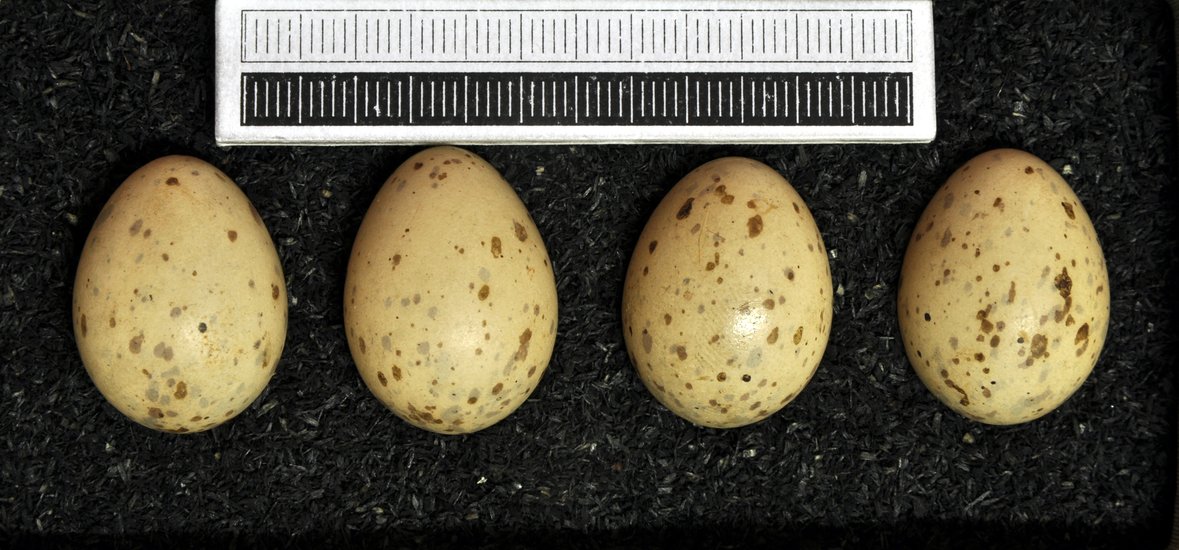 Azure-winged magpie Cyanopica cyana , egg, Coll. Museum Wiesbaden